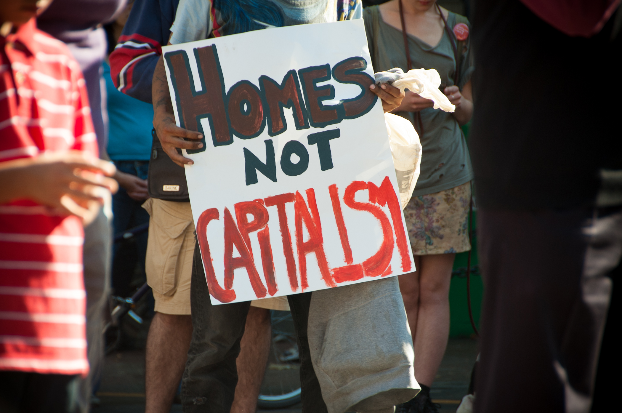 Homes for People, not Profit for Real Estate! No Slumlords, No Evictions and No Gentrification! Rent Control not Social Control! Homes not Jails! Homes not Pipelines! Housing, Childcare, and Healthcare for All! This year we continue to march for housing, childcare, and healthcare for all low-income residents in the DTES. We want no more evictions, no more displacement, and no more gentrification in our neighourhood. We know that the growing number of cops and condos in the DTES is part of a larger pattern to destroy and privatize neighourboods, communities, and the land. We want to live free: free from BC Housing controls, free from violence against women, and free from this system that is hurting and killing us. The DTES Power of Women Group is a group of women (we are an inclusive group) from all walks of life who are either on social assistance, working poor, or homeless; but we are all living in extreme poverty in and around the DTES.